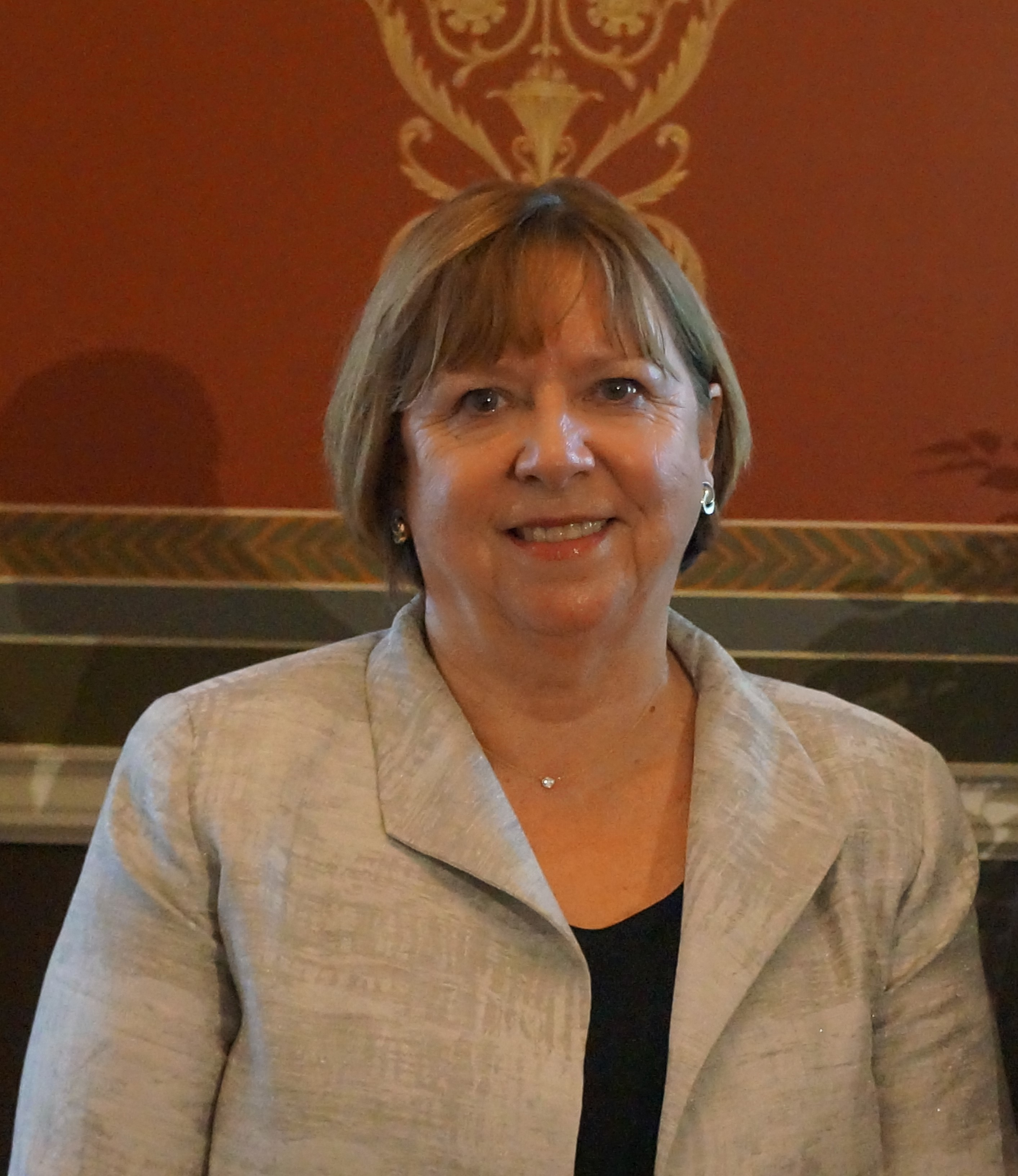 Attendees of the Saving the Web: The Ethics and Challenges of Preserving What's on the Internet at Room LJ-119, Thomas Jefferson Building, Library of Congress, United States of America